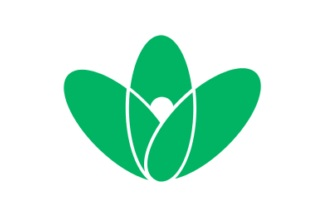 Flag of Miyama Fukuoka